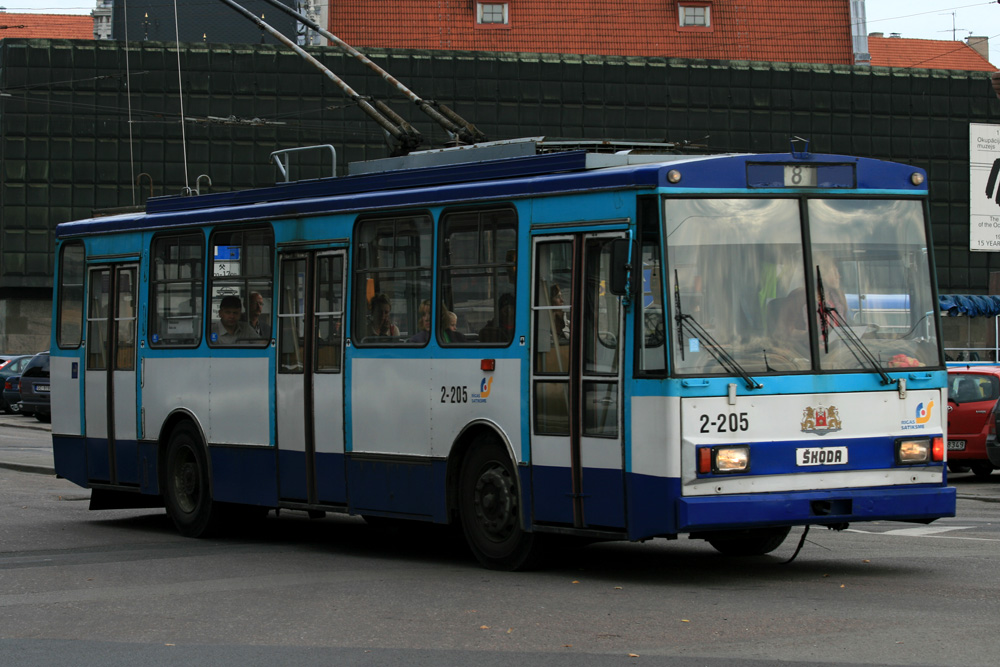 Trolleybus in Riga